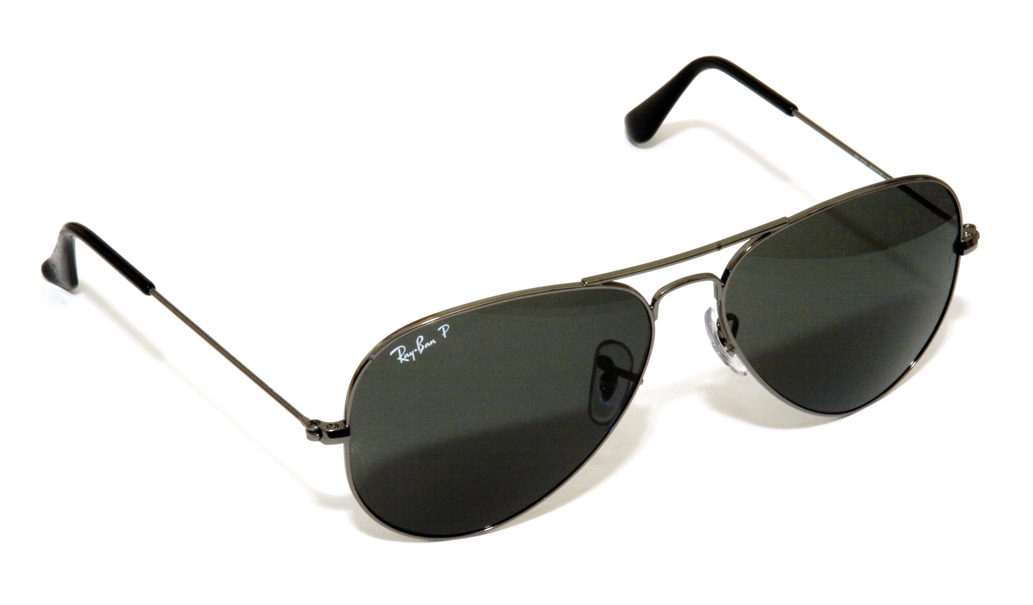 Ray-Ban Aviator sunglasses model RB3025 004/58. It features skull-type temples that hook over the ears.